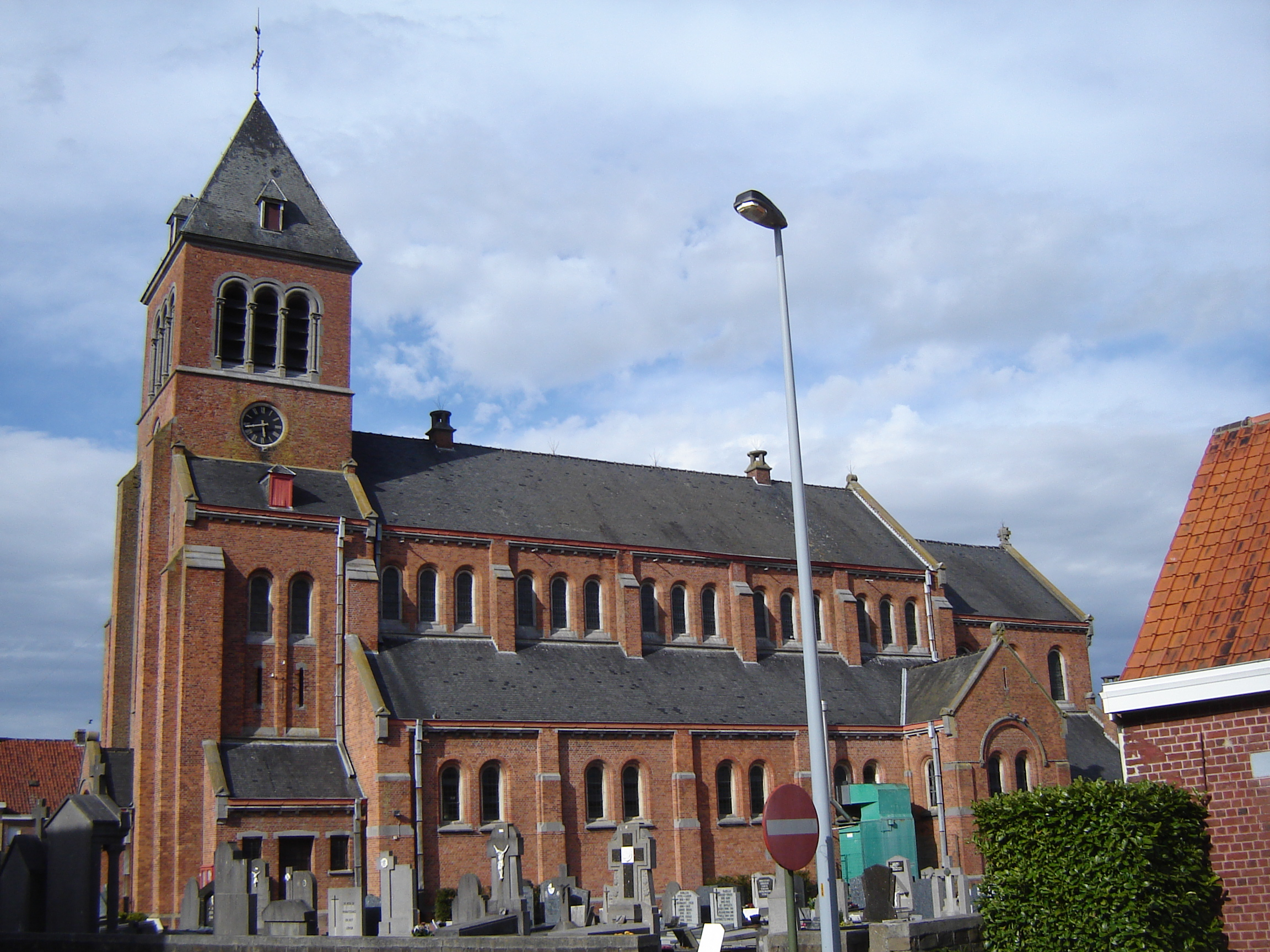 Church of the Assumption of Mary in Houthem. Houthem, Comines-Warneton, Hainaut, Belgium